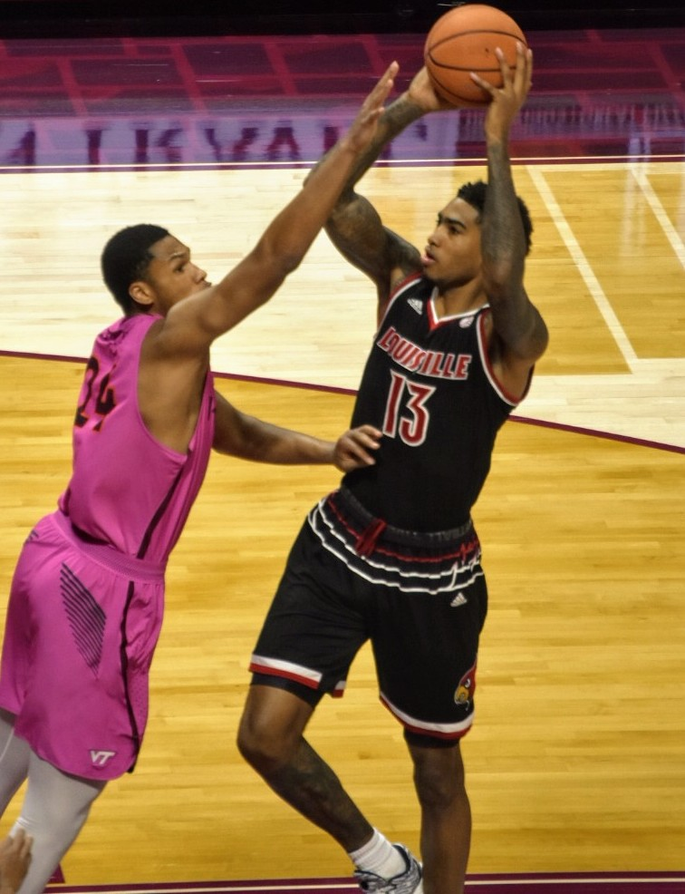 Ray Spalding controls the ball with Kerry Blackshear, Jr., on defense.